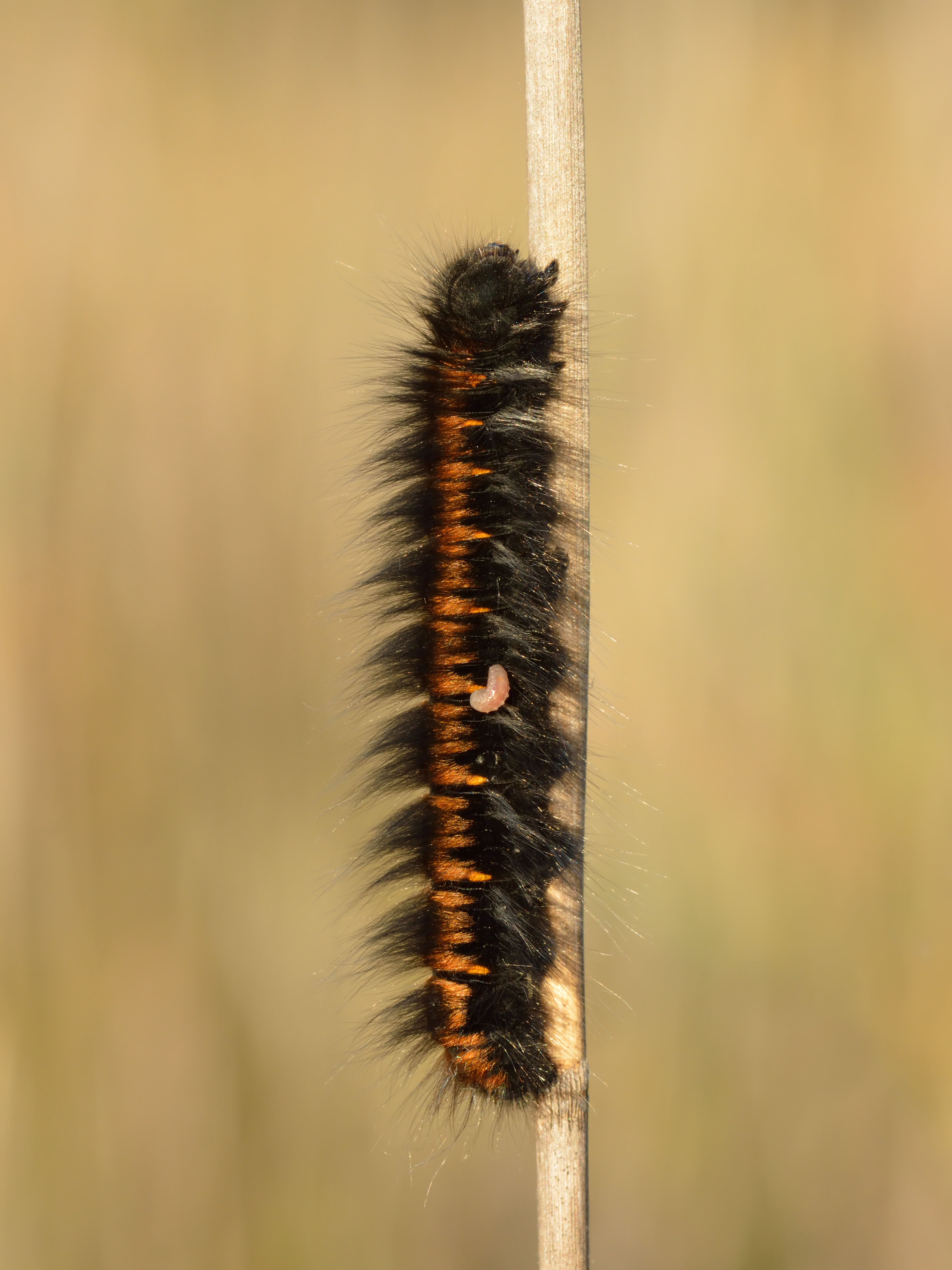 Caterpillar of fox moth (Macrothylacia rubi) with parasitoid larvae, who exits from the host to pupate. Niitvälja bog, Northwestern Estonia.